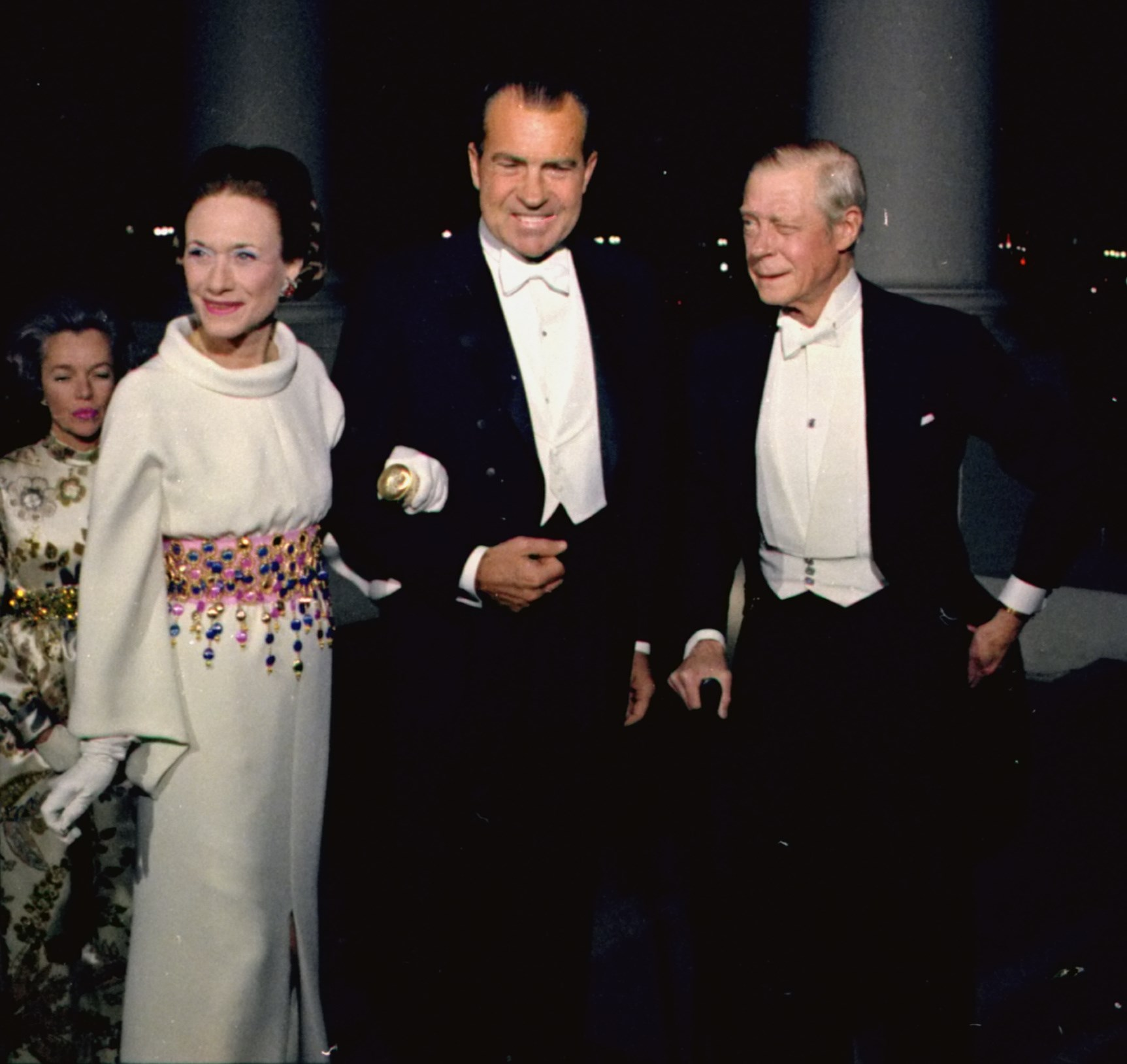 The Duchess of Windsor, President Richard Nixon, and The Duke of Windsor.